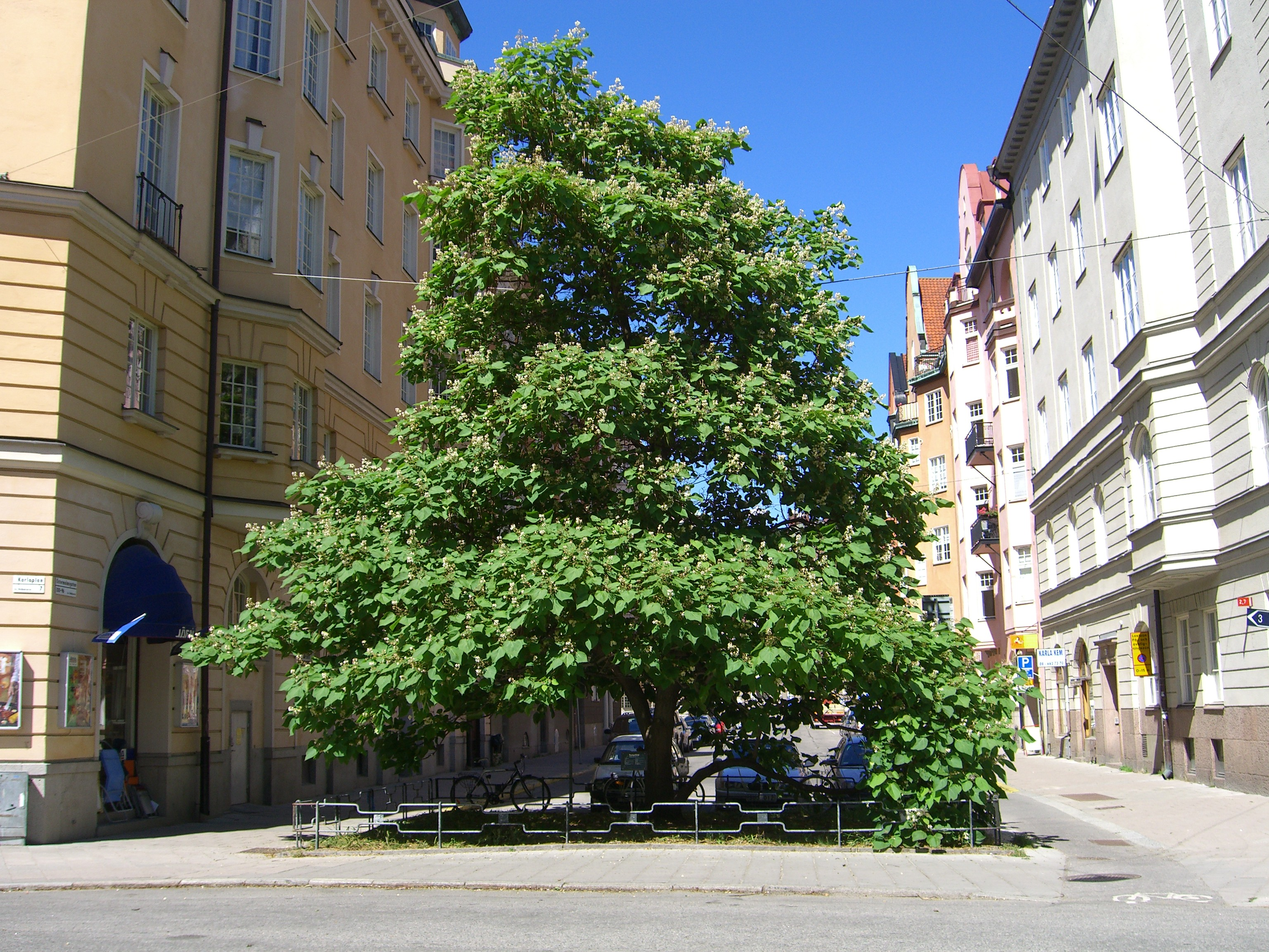 Catalpa bignonioides Walt. Edit suggestion: Catalpa x erubescens (stems from cutting from the C x erubescens at the Bergius Botanical Garden)